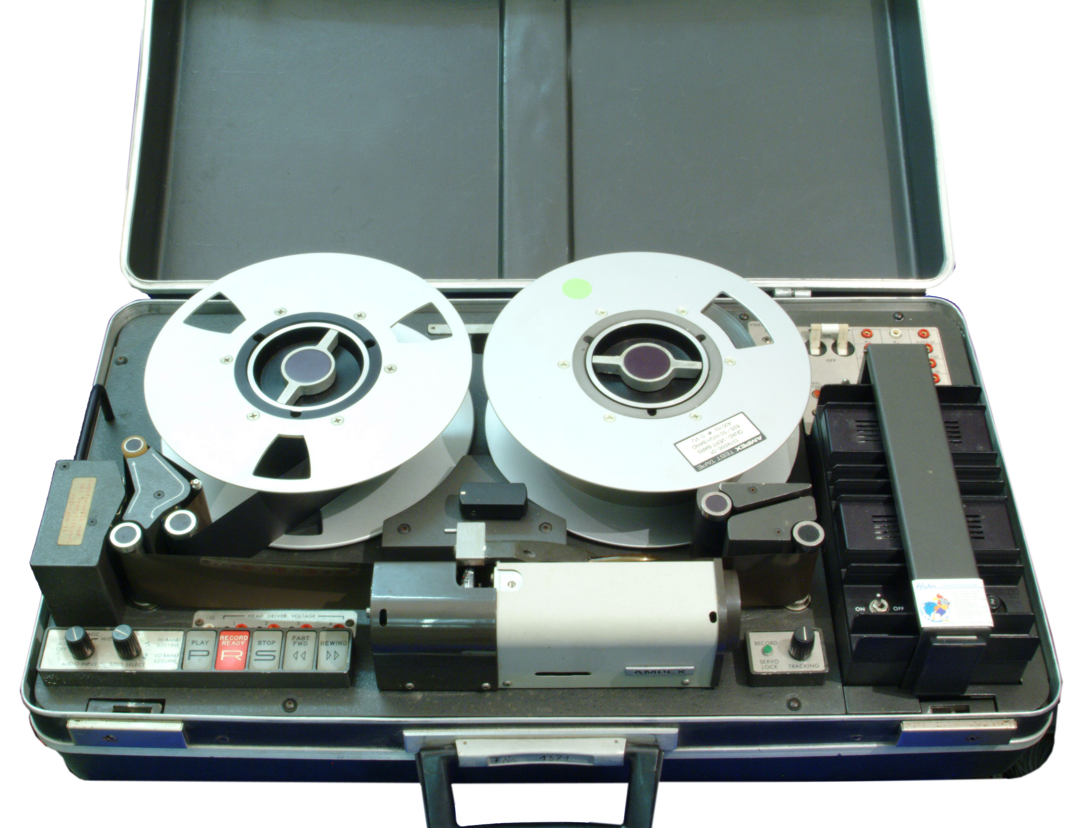 tragbare AMPEX 2 Zoll-Maschine Ampex 2 inch portable Video Tape Recorder